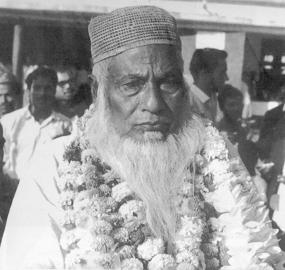 Maulana Bhasani Afro-Asian co-operation movement held in Havana, Cuba, 1965